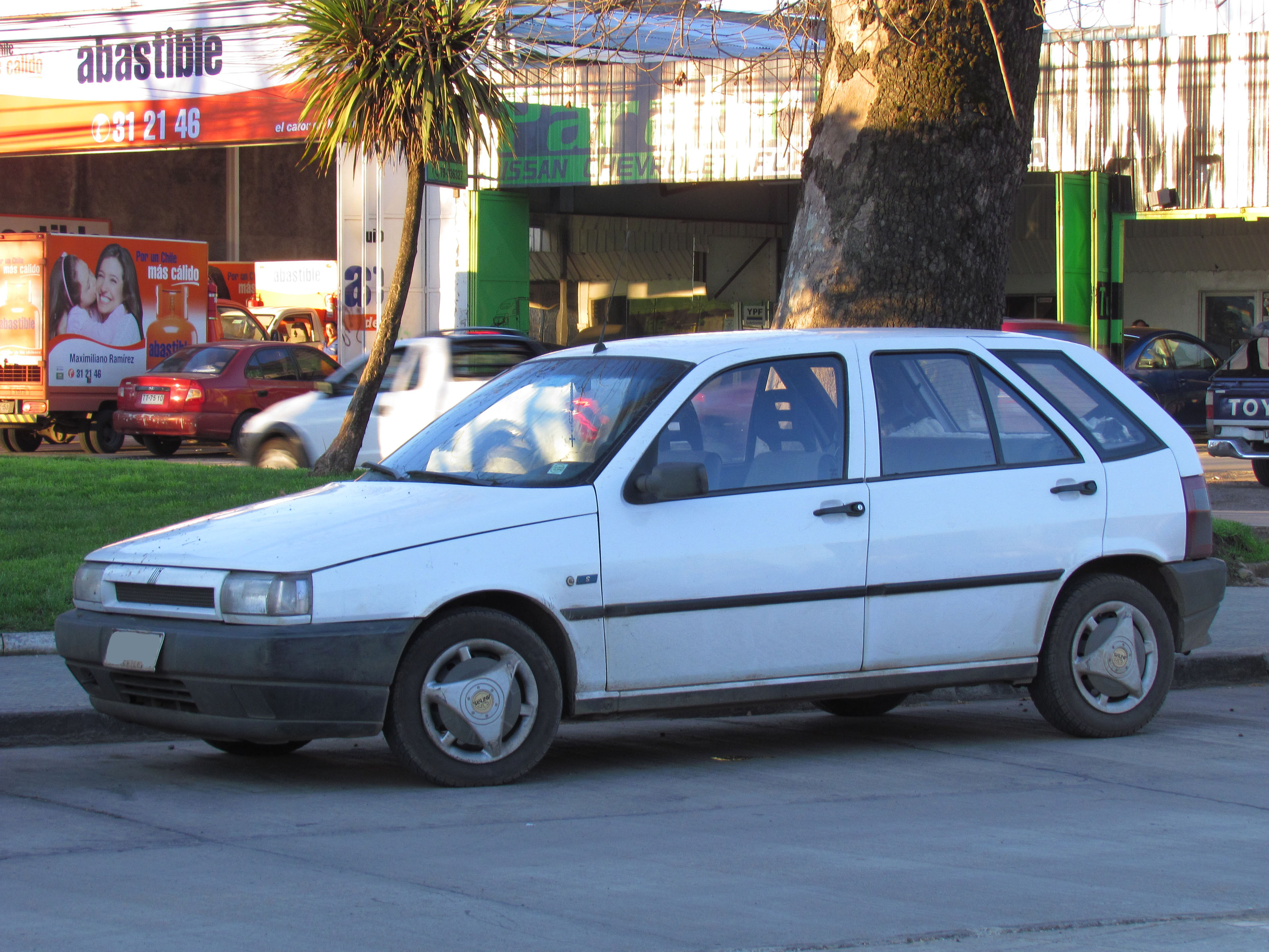 Fiat Tipo S 1.6 iE 1996